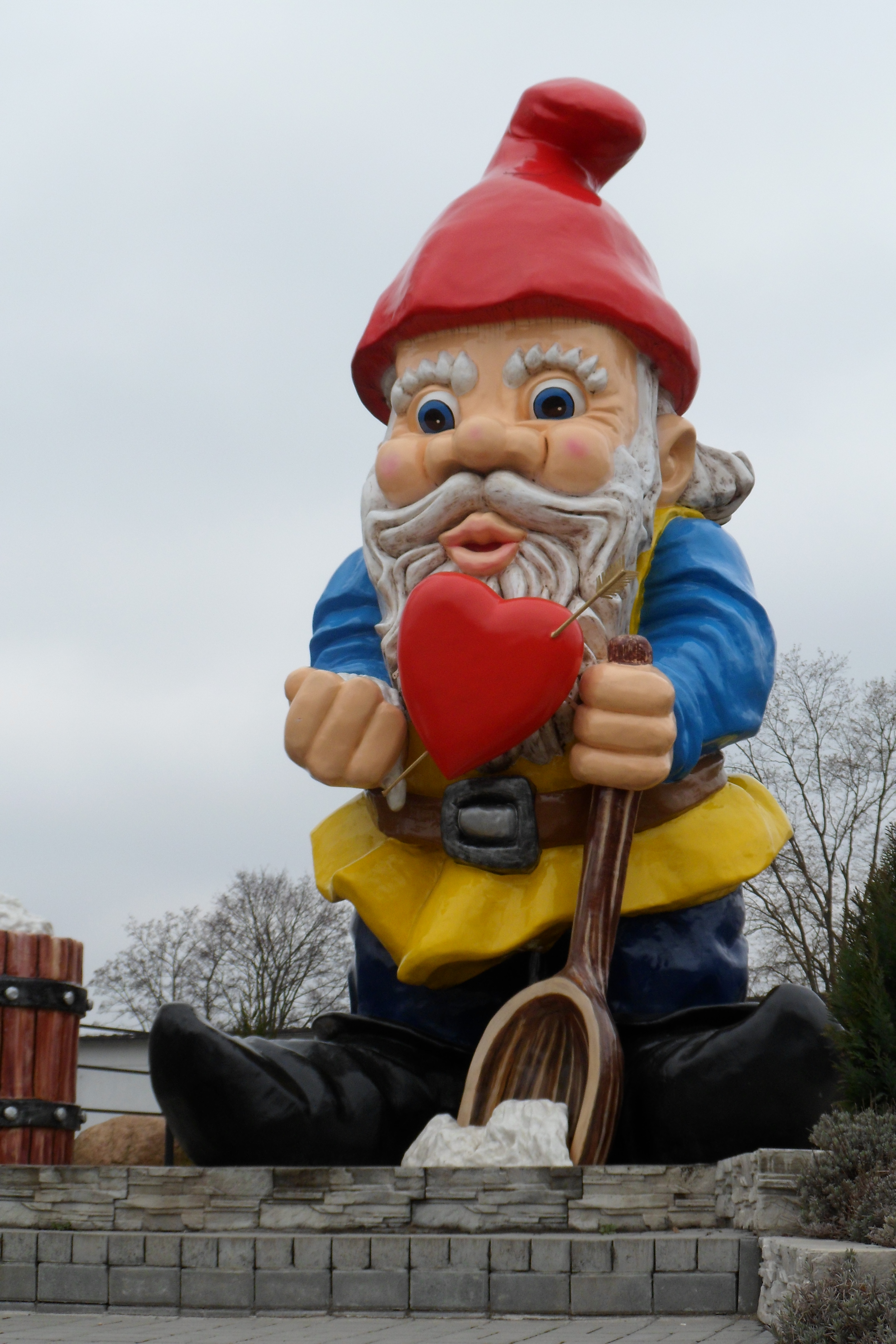 The worlds biggest Garden Gnome, called "Solus", recognised by Guinness World Records Book 2009, placed in Nowa Sól, Poland (5,41 m high)